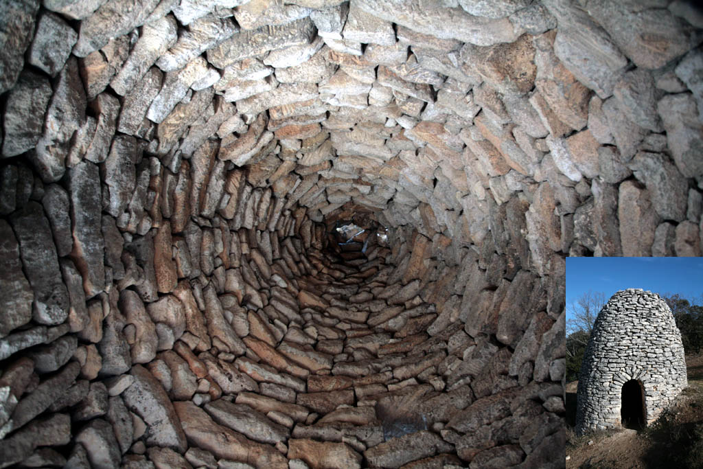 inside à borie, shows the work on stone